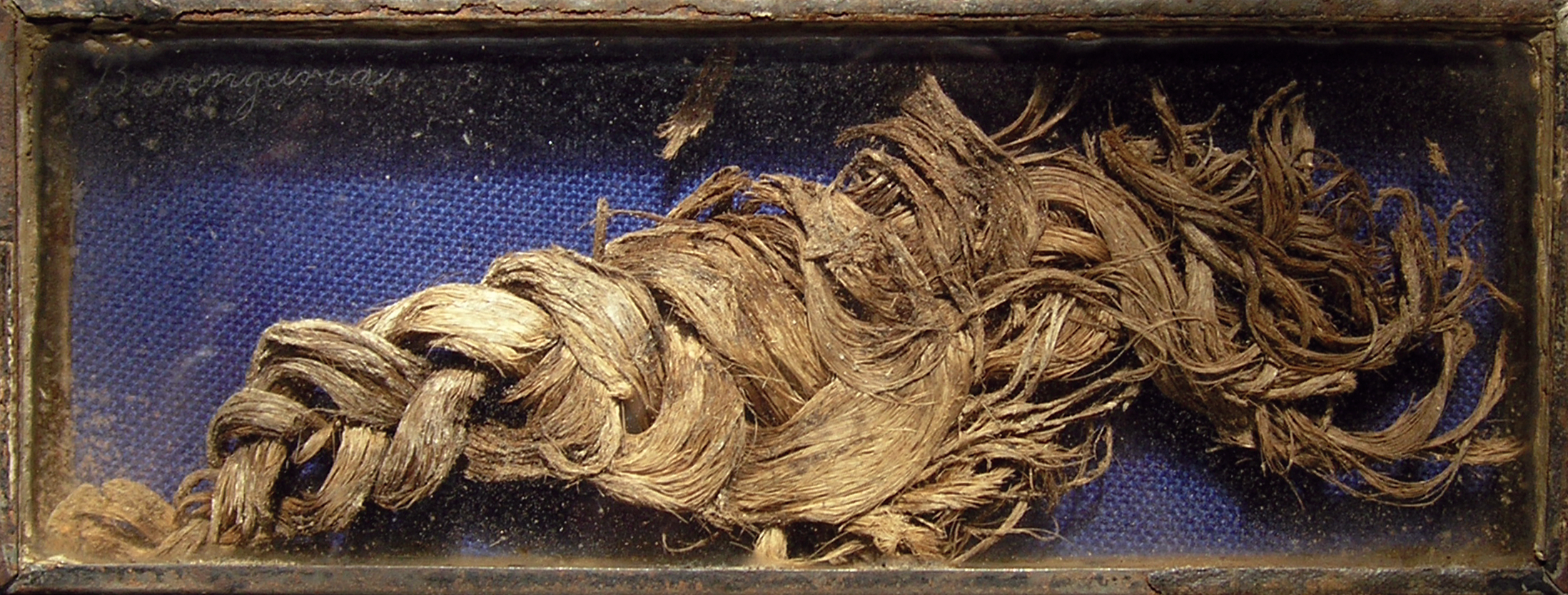 Queen Benrengarias plait of hair from her funural place in Sankt Bendts Church in Ringsted, Denmark (1221 AD).